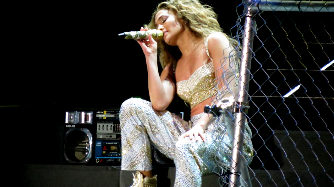 Jennifer Lopez live at the Pop Music Festival in São Paulo, Brazil.